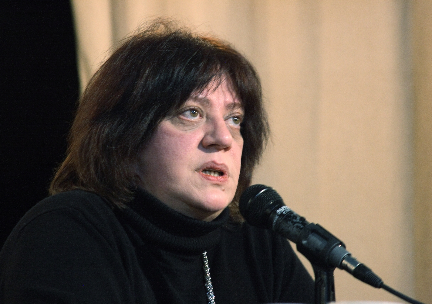 Tatyana Tolstaya - a Russian writer, TV presenter.